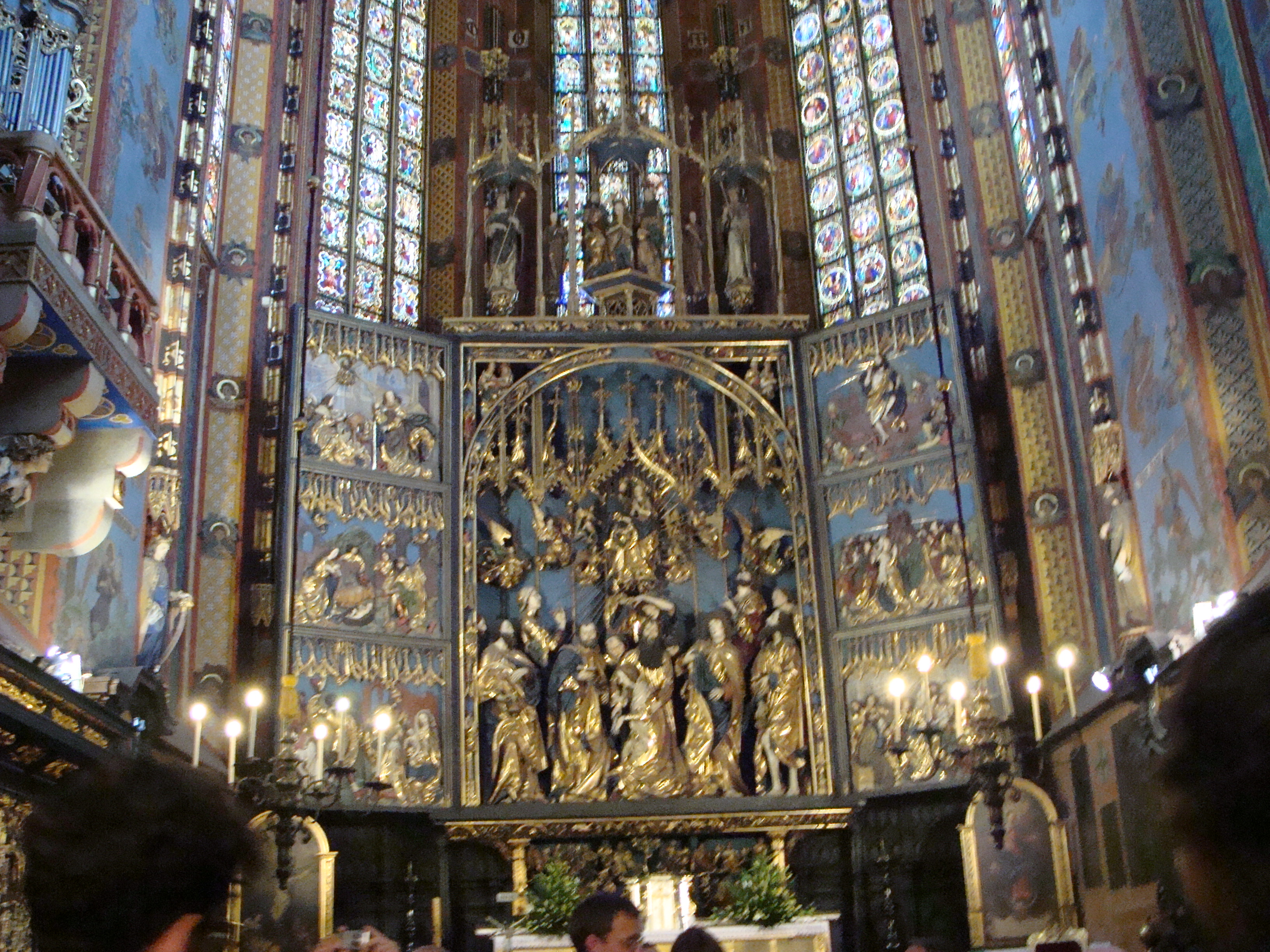 Veit Stoss Altar, St, Mary' s Church, Krakow